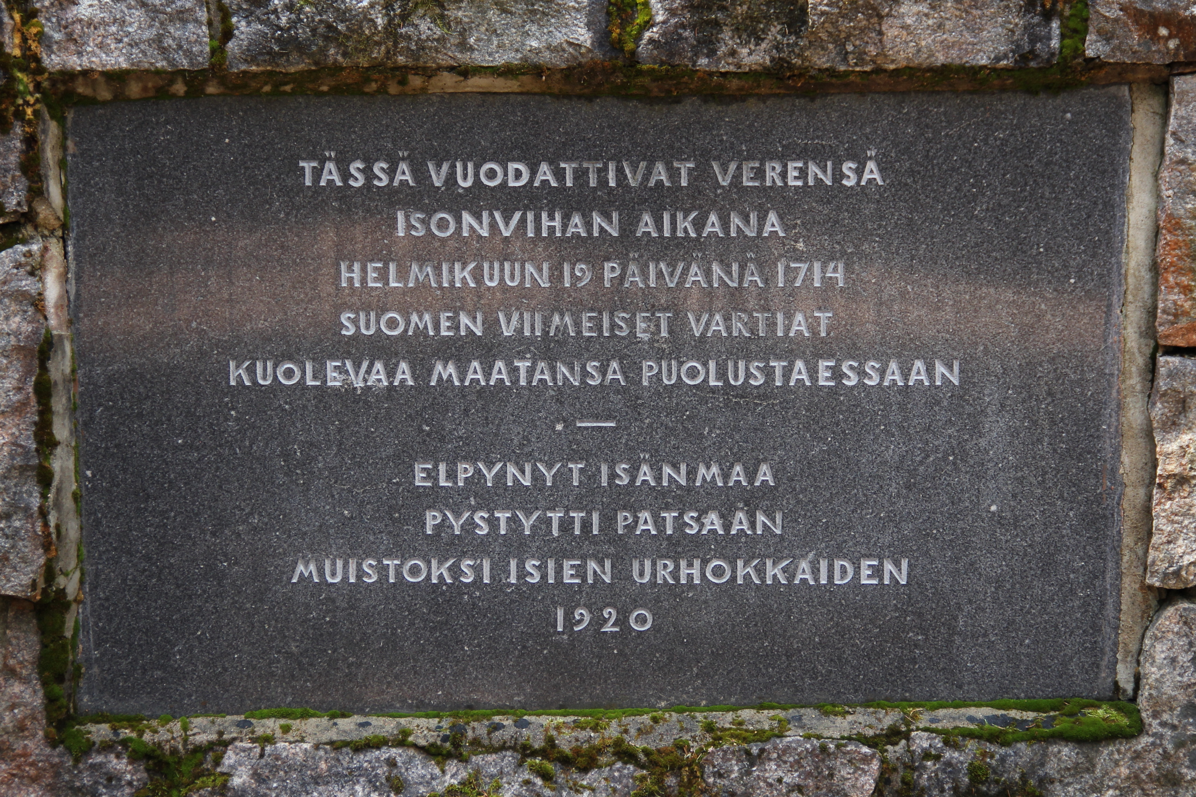 Battle of Napue memorial, Isokyrö, Finland. -Stone plaque in monument.